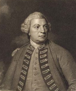 General Studholme Hodgson [cropped]